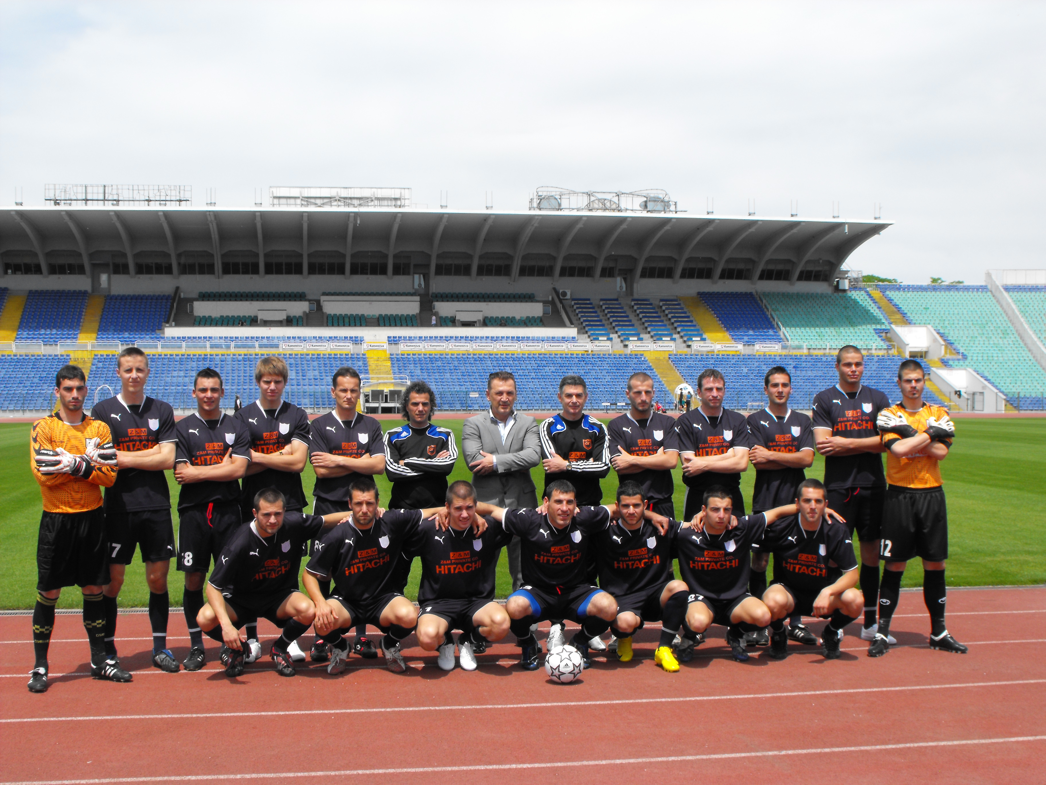 FC "Slivnishki geroi" Slivnitsa, Bulgaria